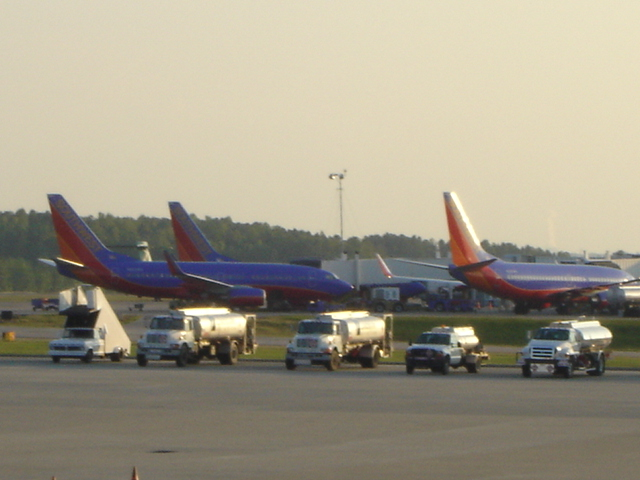 Southwest docked at the upper gates of Terminal 1.